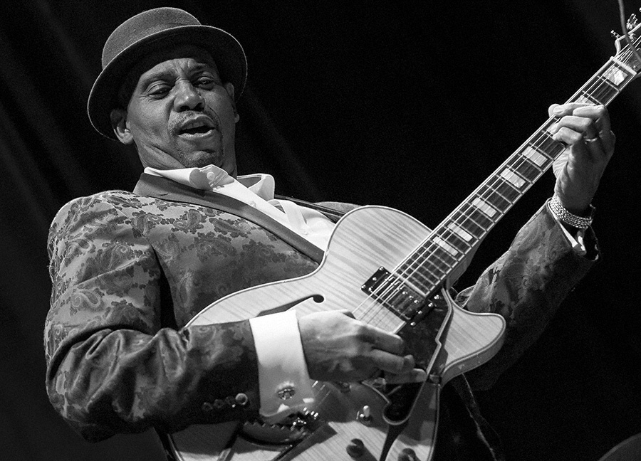 Allan Harris performs at Cosmopolite Scene in Oslo on 24. April 2016. Lineup:Allan Harris (vocal)Pascal Le Boeuf (keyboard)Paco Perera (double bass)Yoran Vroom (drums)